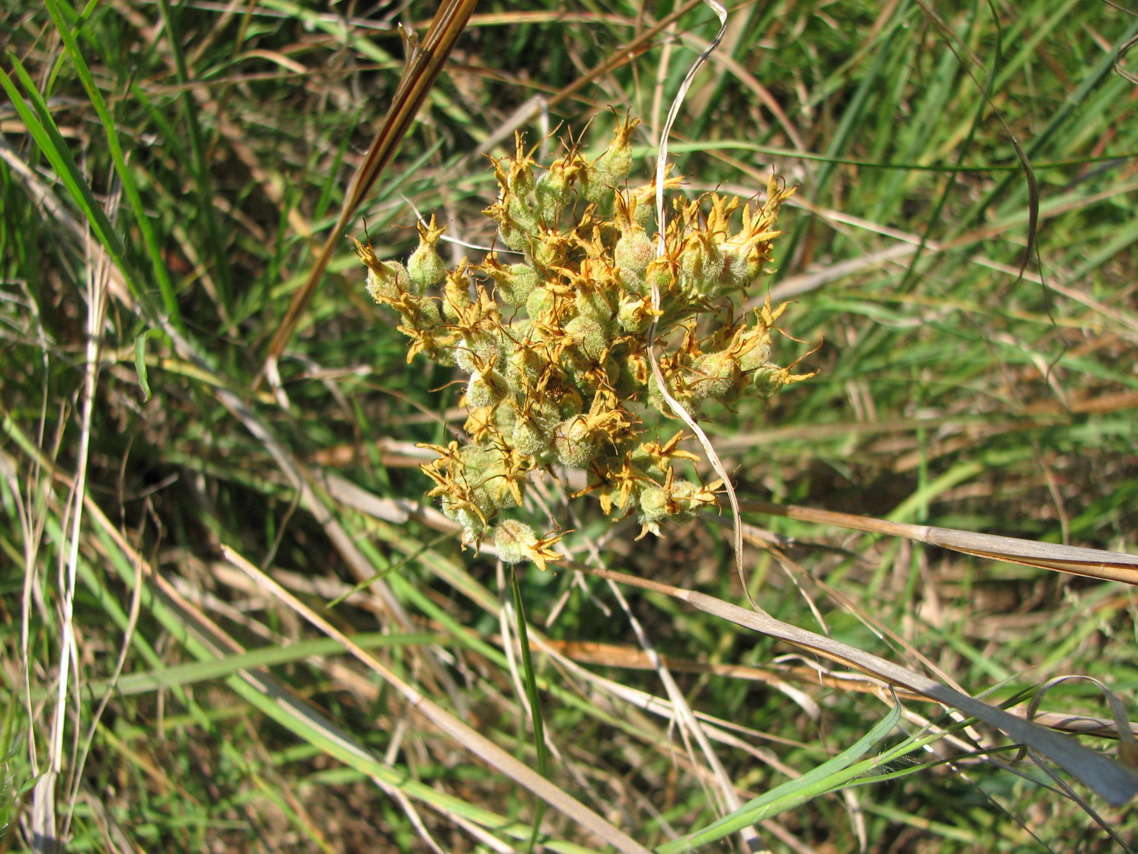 Seedpods of redroot (Lachnanthes caroliniana) at Franklin Parker Preserve, New Jersey Pine Barrens, USA.